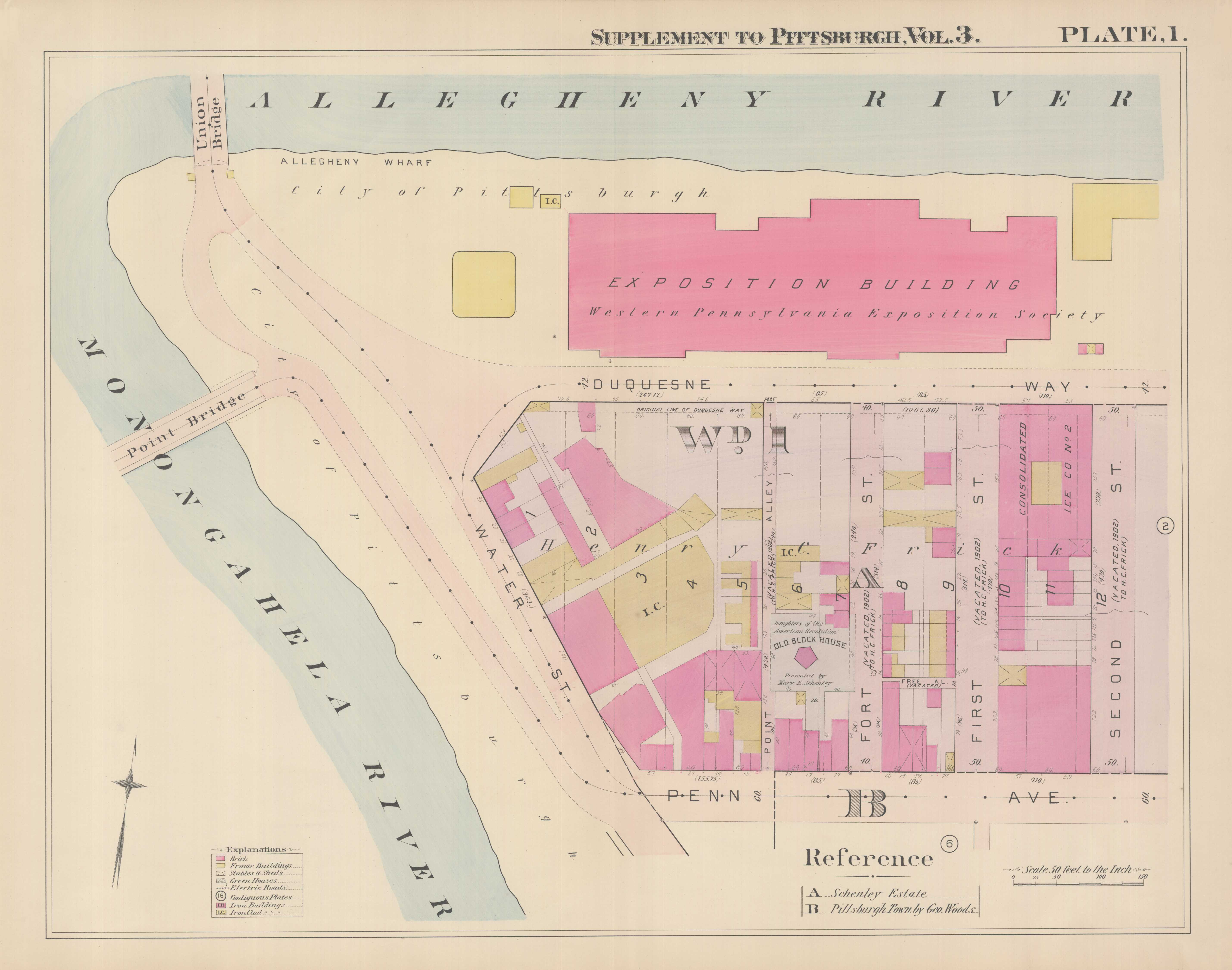 This is a map published in 1900 of the area of Pittsburgh now known as Point State Park. Original description from the University of Pittsburgh: Real estate plat-book of the City of Pittsburgh : from official records, private plans and actual surveys. Volume 3 (1900) -- Wards 1-12, 15-17. [Downtown, Strip District, Hill District, Polish Hill, Lawrenceville, Bloomfield] Title: Plate 1 Creator: G. M. Hopkins & Co. Publisher: Philadelphia: G. M. Hopkins & Co. Dimension: 58 x 81 cm Scale: 50 Municipality: Pittsburgh Street: Fort st, First st, Duquesne way, Penn ave, Second st, Point al, Water st Land, Water, Other: Allegheny, Monongahela Identifier: 03sv3p01